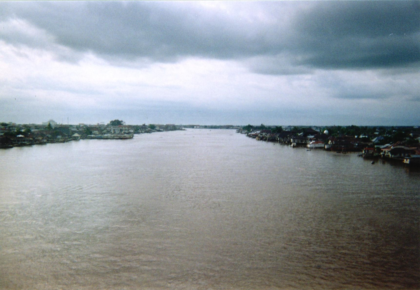 Image taken by User:Roisterer, March 1998.